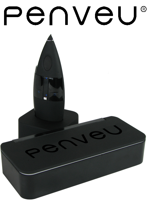 All parts of the penveu system with the penveu logo and registered trademark